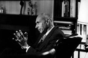 Casamayor